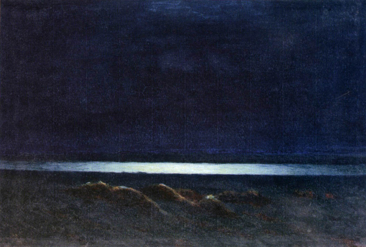 Night at the Dnieper (study by Arkhip Kuindzhi, Sevastopol Museum of Art)